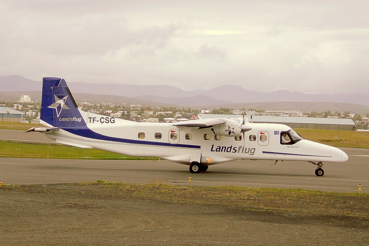 A Dornier Do 228 of Icelandic airline Landsflug taxies at Reykjavik Airport.